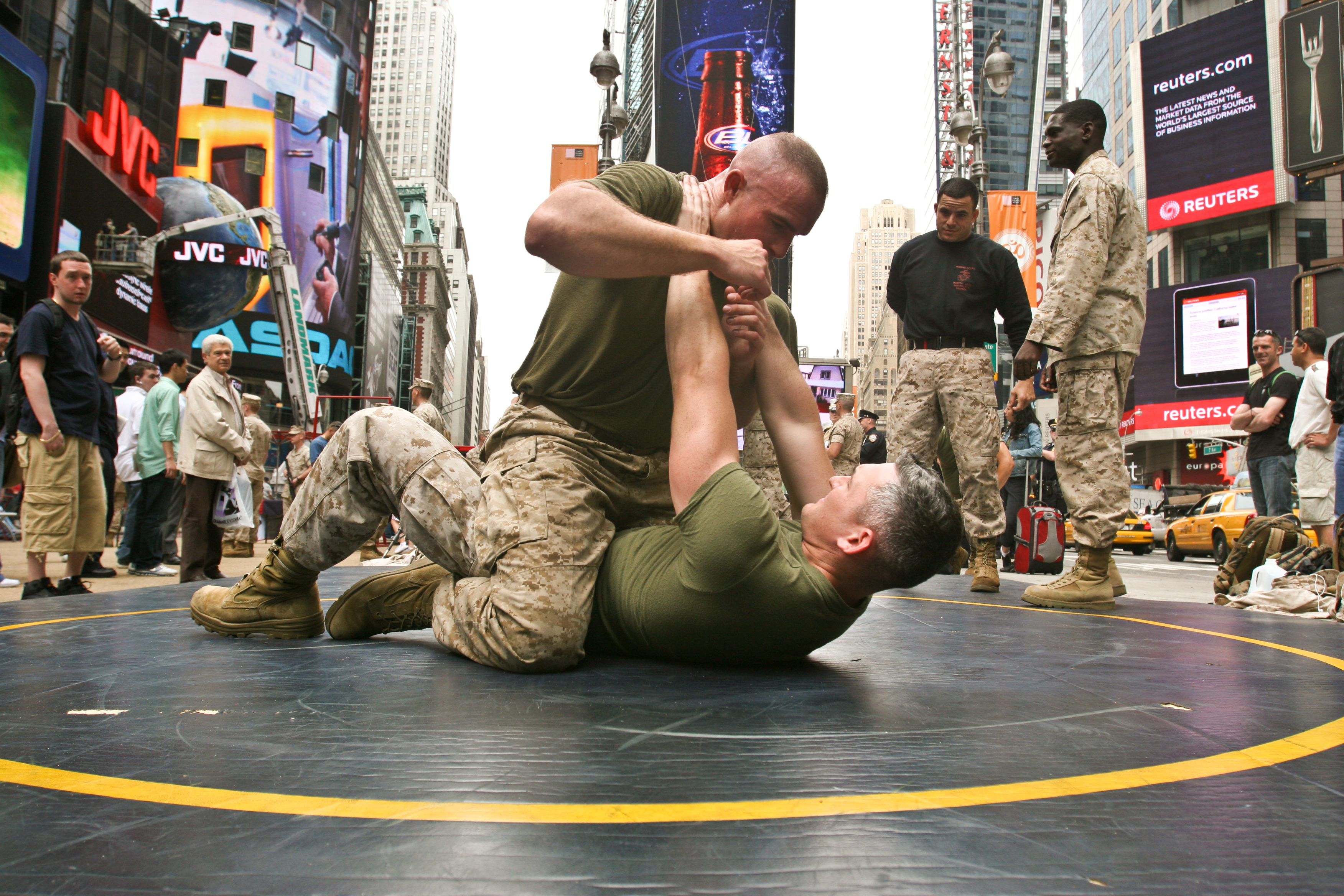 Marines with Special Marine Ground Task Force demonstrated the Marine Corps Martial Arts Program as well as displayed weaponry in support of Fleet Week New York City 2010. More than 3,000 Marines, Sailors and Coast Guardsmen will be in the area participating in community outreach events and equipment demonstrations. This is the 26th year New York City has hosted the sea services for Fleet Week.